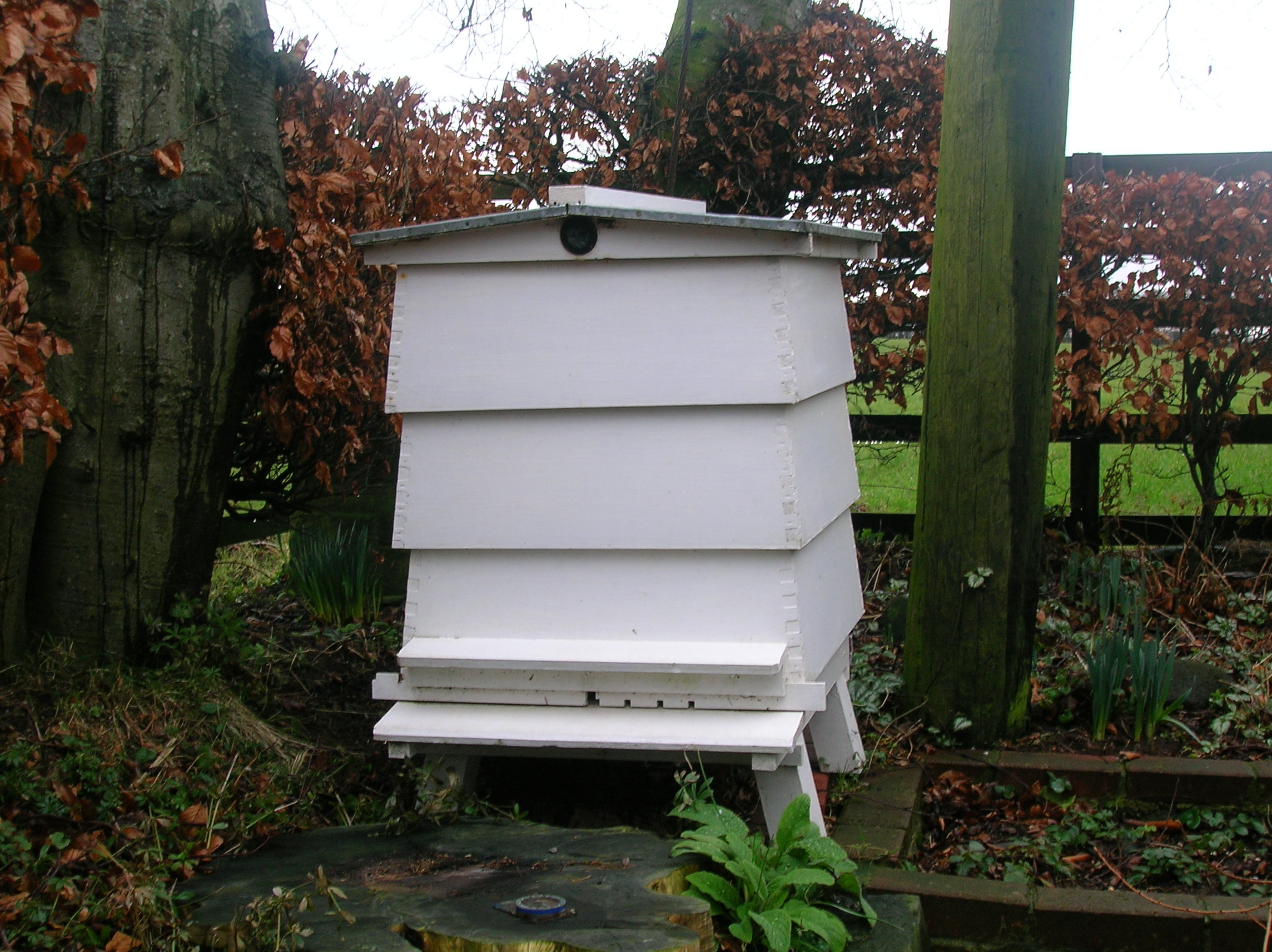 A Wlliam Broughton Carr style bee hive.